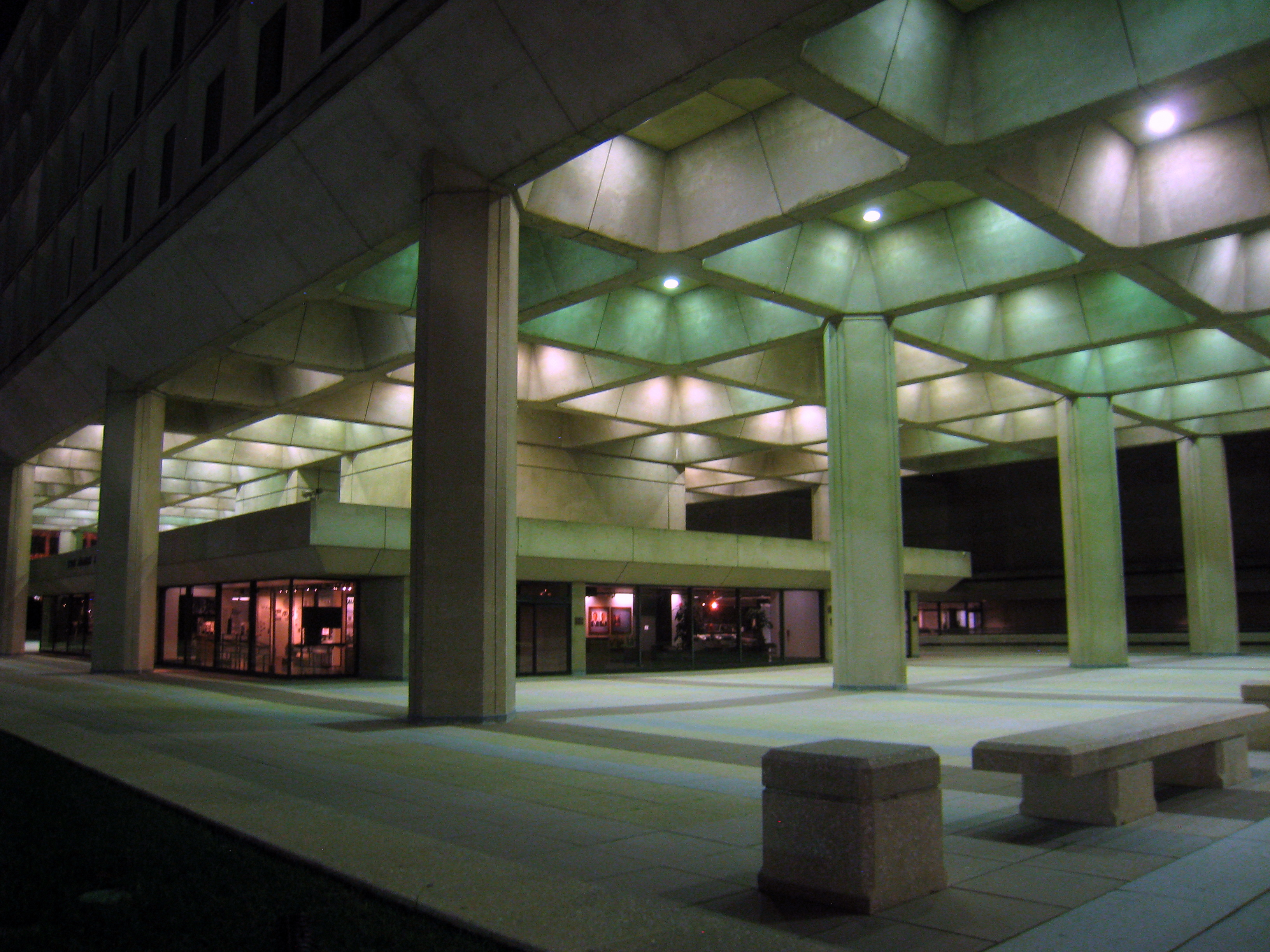 James V. Forrestal Building, Washington, DC, USA.